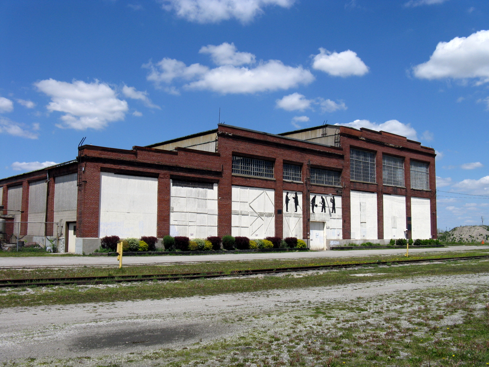 Elgin County Railway Museum in St. Thomas, Ontario, housed in an old locomotive maintenance shed.